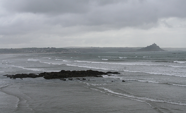 Rocky outcrop, Chyandour, Penzance Rocks on the otherwise sandy beach on what started as a damp and leaden sunday morning in August as we ventured to St. Michael's mount (in the distance) and back.